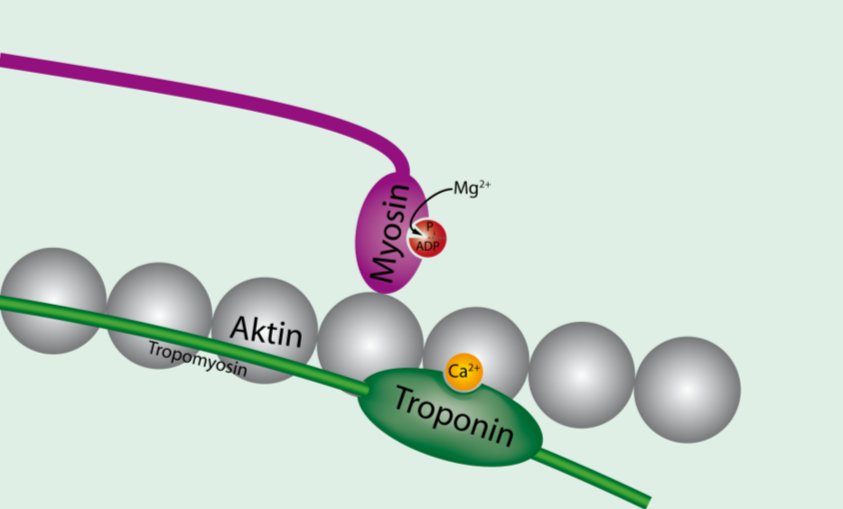 This is a recropped image originally created by Hank van Helvete